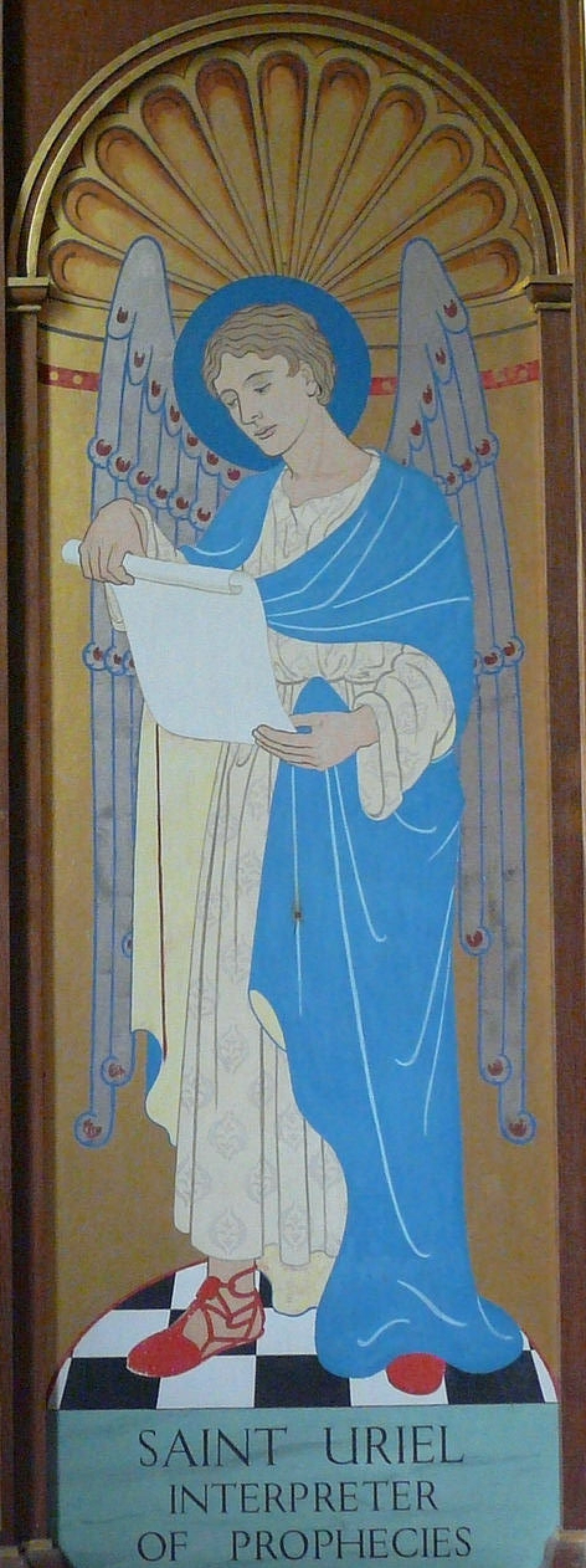 Saint Uriel, Interpreter of Prophecies, one of the painted panels near the font in Saint Michael and All Angels Church, Howick, Northumerland, England, United Kingdom.